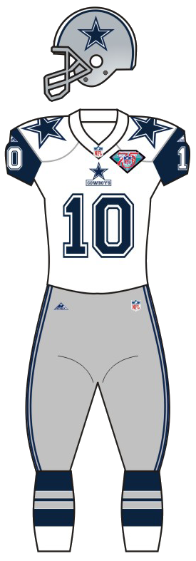 The Dallas Cowboys "throwback" to their original away uniform (circa 1960-63). Worn once in 1994 on Monday Night Football against the Detroit Lions.